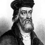 John Wycliffe (also Wyclif, Wycliff, or Wickliffe, Czech Jan Viklef) (mid-1320s – 31 December 1384) was an English theologian and an early dissident in the Roman Catholic Church during the 14th century. He is credited as the first person to give a complete translation of the Bible into English (called Wyclif's Bible).